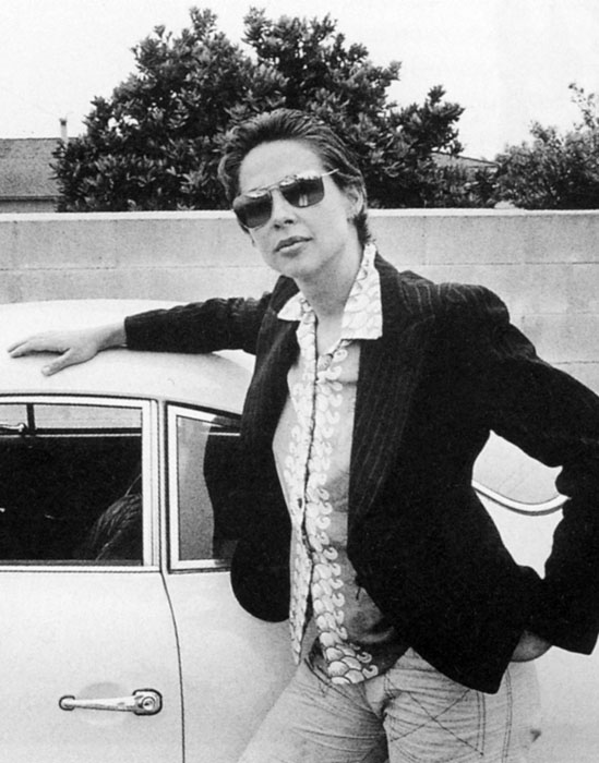 Lynda Benglis from an advertisement in the April 1974 issue of Artforum